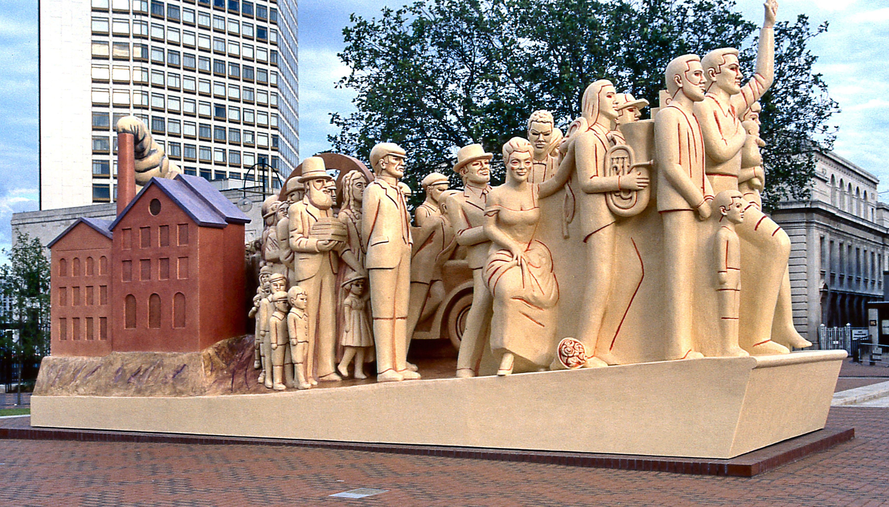 The "Forward" statue by Raymond Mason, created in 1991 and destroyed by arson in Centenary Square, Birmingham, England in 2003.